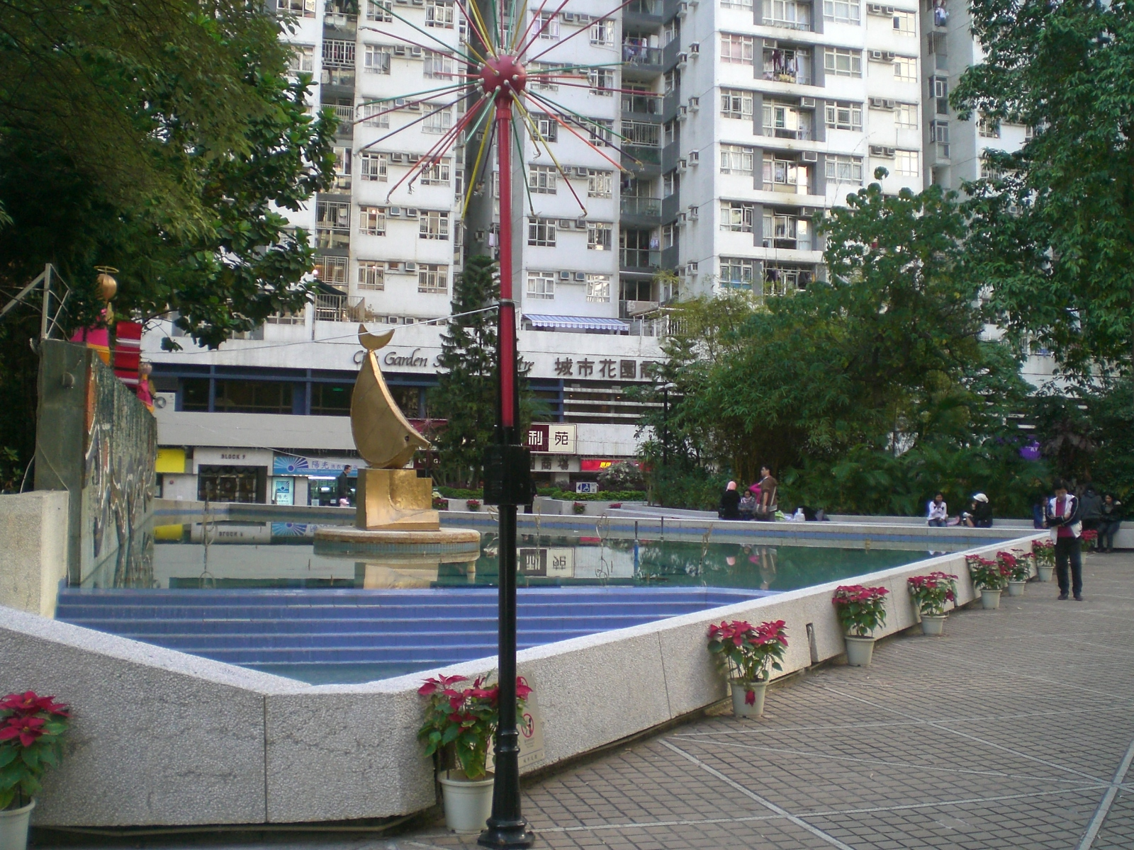 北角 城市花園 中央zh:公園